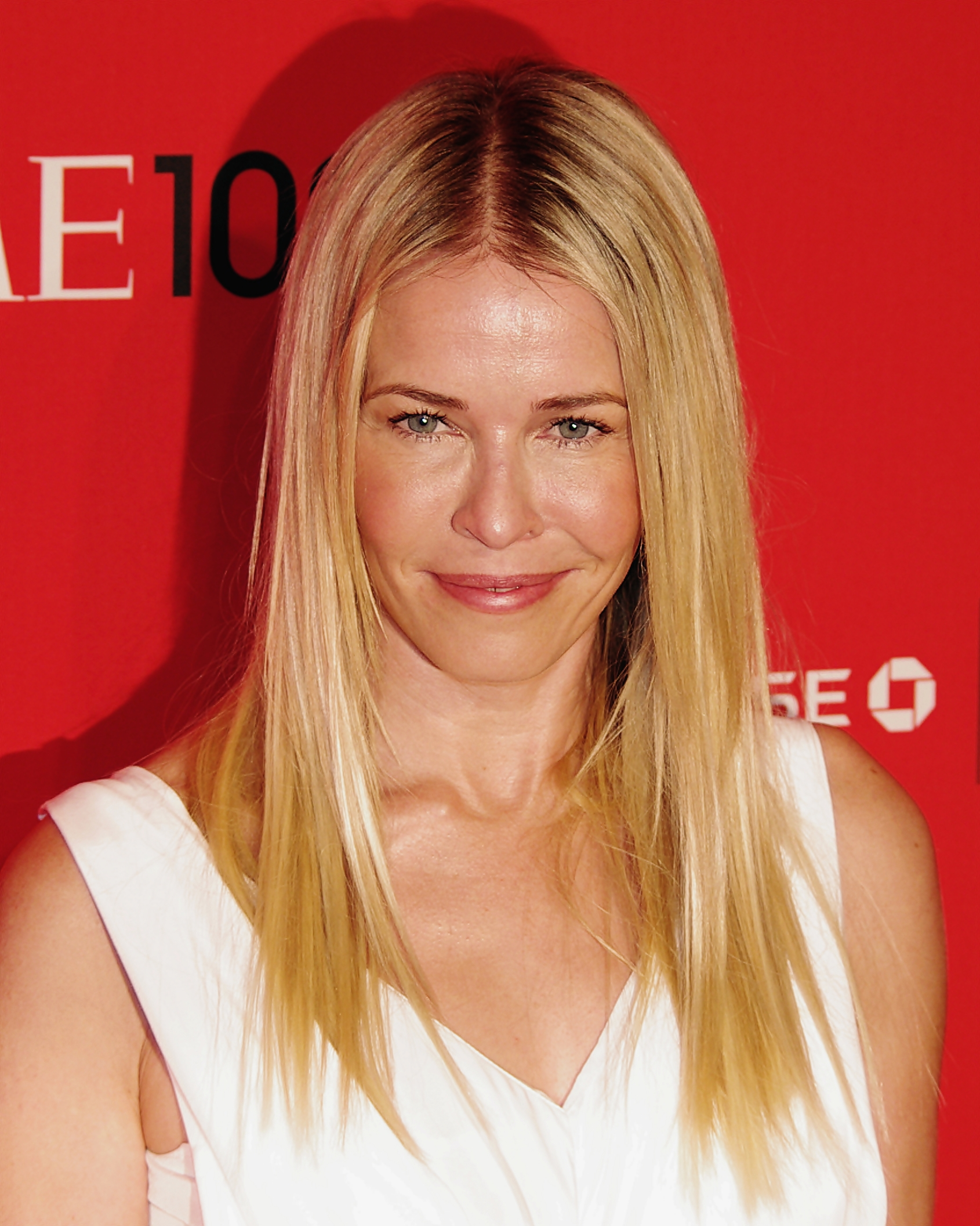 Chelsea Handler at the 2012 Time 100 gala.